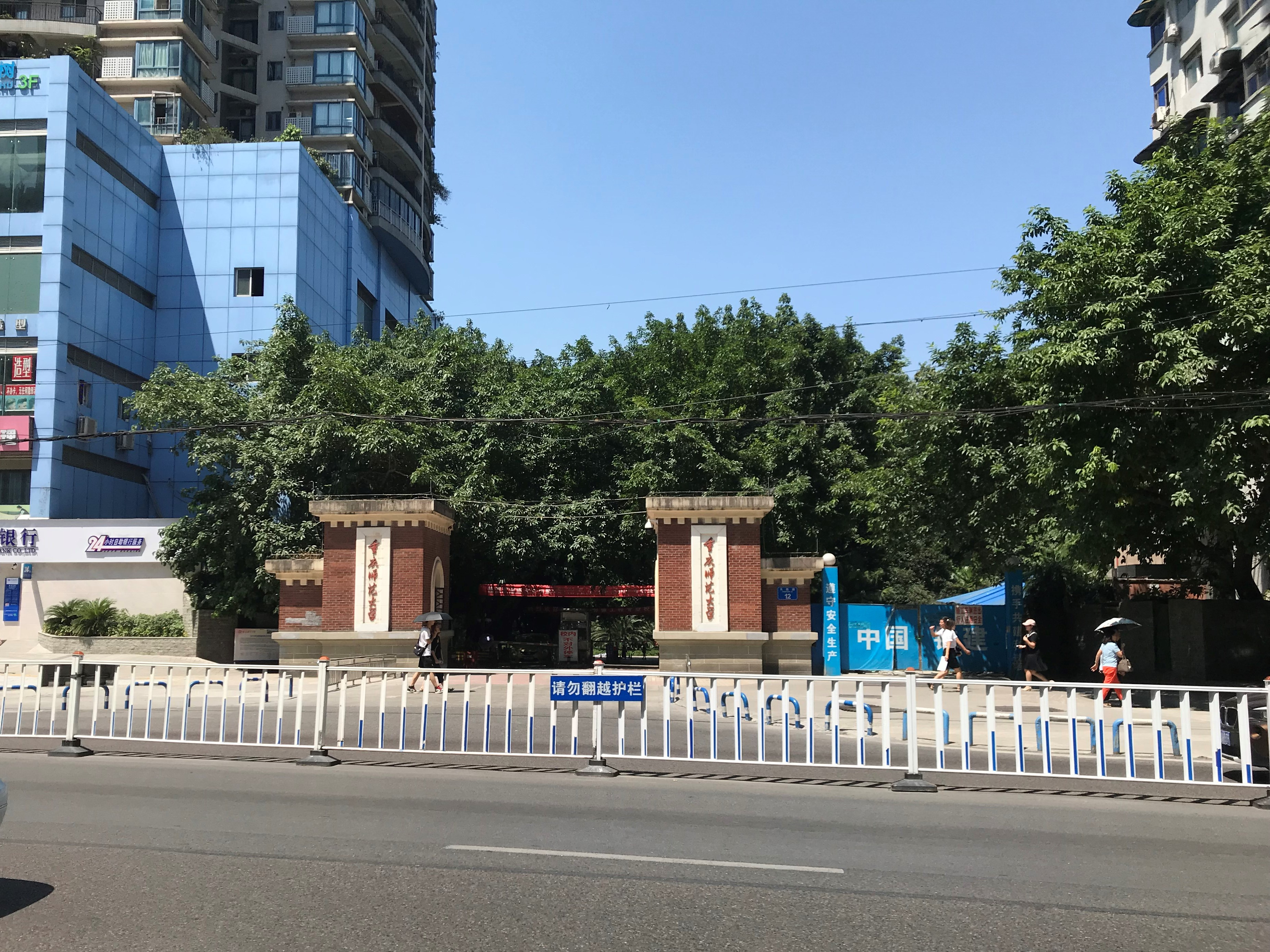 201908 Chongqing Normal University Shapingba Campus